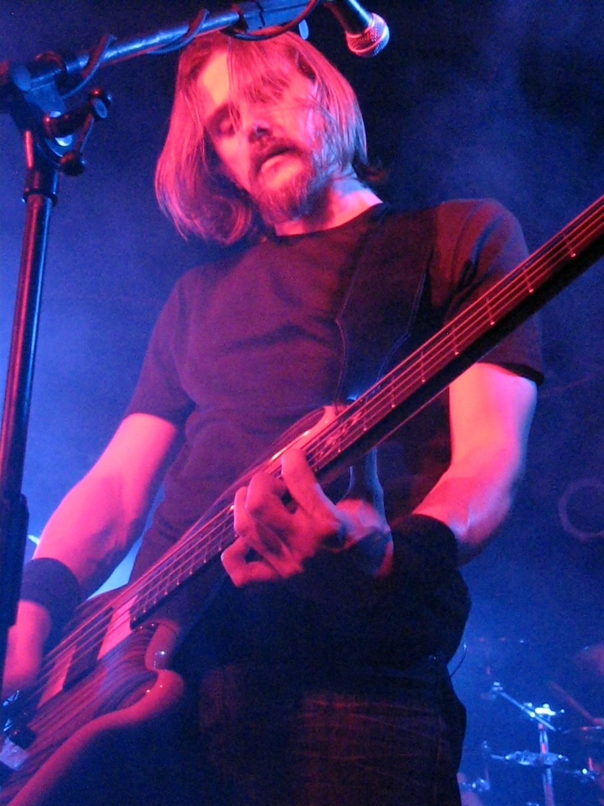 Riverside at The Underworld, Camden. 2007-11-30.